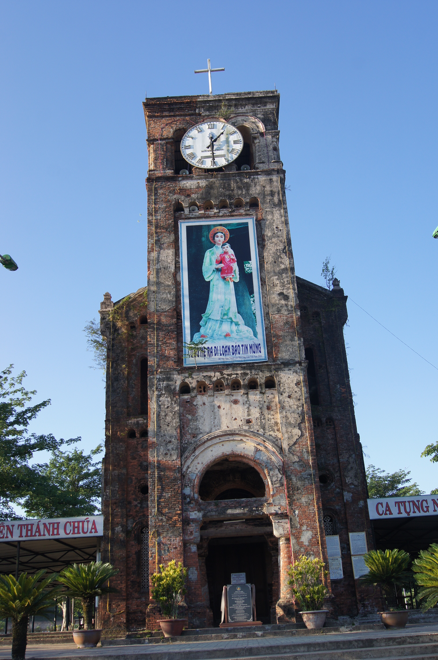 The remains of the Bell Tower of the Church of La Vang after the war